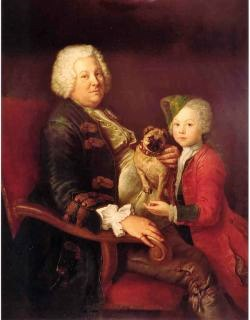 The Prussian merchant Gottfried Adolph Daum with son